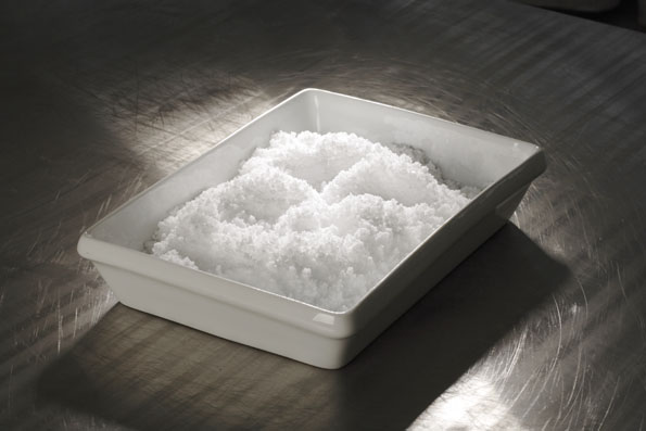 Pure ammonium perrhenate powder